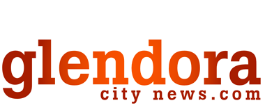 Glendora City News logo.